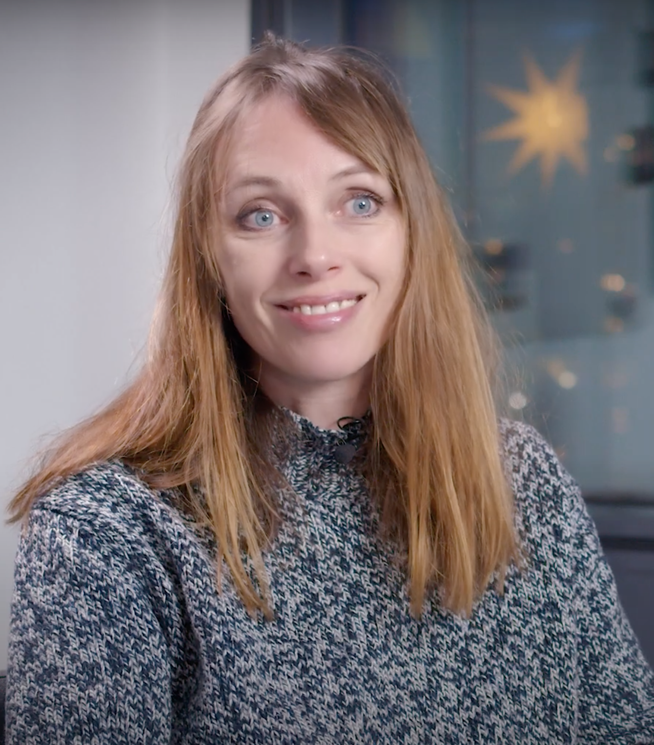 Brita Zilg, Swedish art director and medical examiner. Screenshot from a video interview made by Internetmuseum 2020.